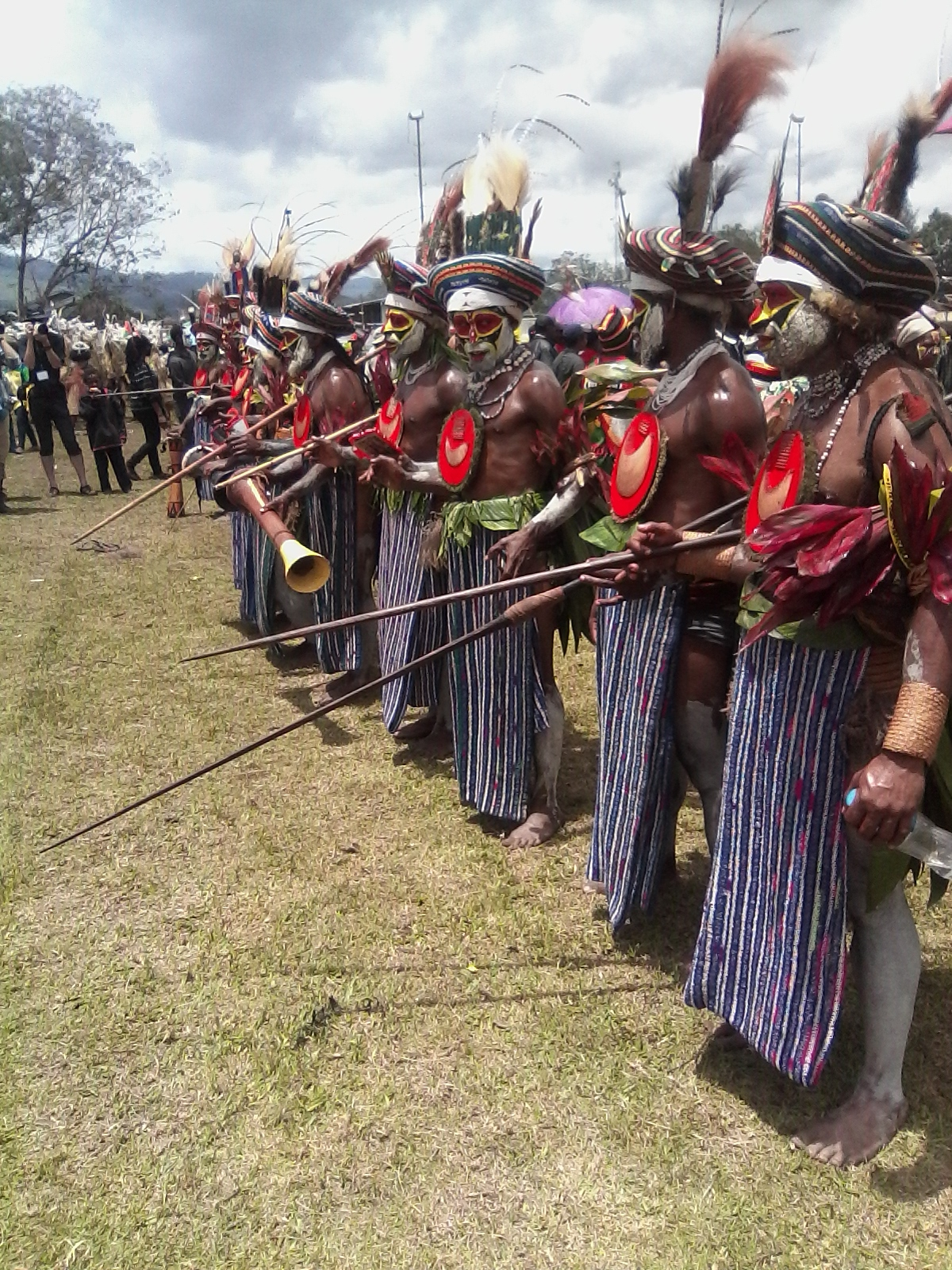 These are also the Hagen show performers from that region with their traditional cultural costumes in the show ground performing melpa dance